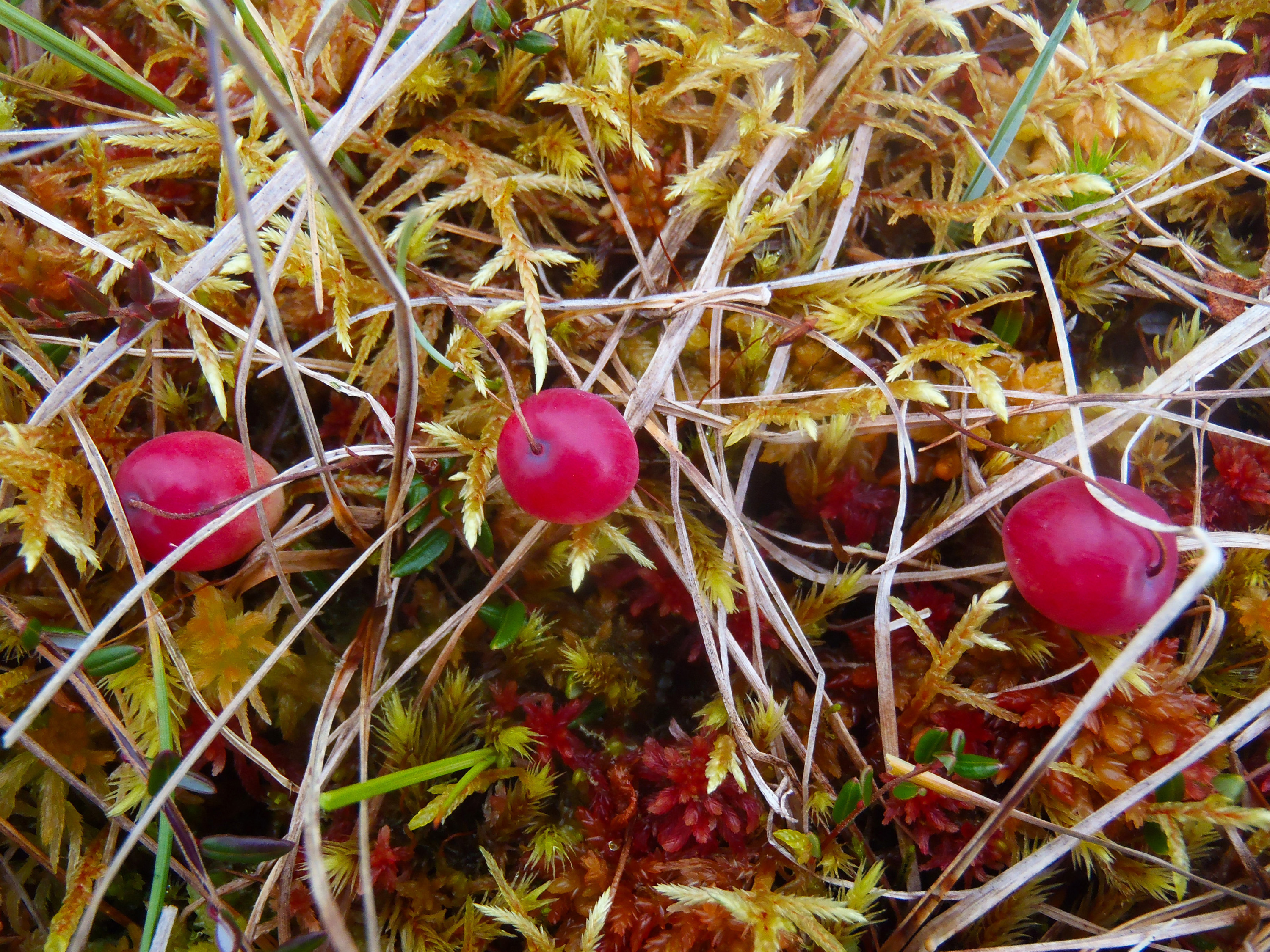 Cranberries (Vaccinium microcarpus) ripen in a muskeg near Petesburg, AK. Muskegs, a colloquial term for peat bogs, blanket 10% of the Tongass National Forest. These wetlands range in size from a few square feet to many acres. Over the ages, muskegs formed as Sphagnum mosses, rushes and sedges grew and built up spongy carpets in these very wet, almost treeless areas. Photo by Karen Dillman.